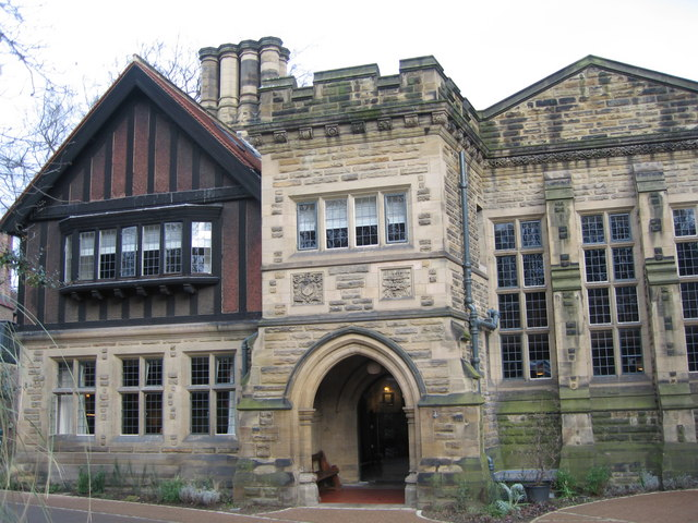 Jesmond Dene House Now a Hotel and Restaurant still has many original features both inside and out.